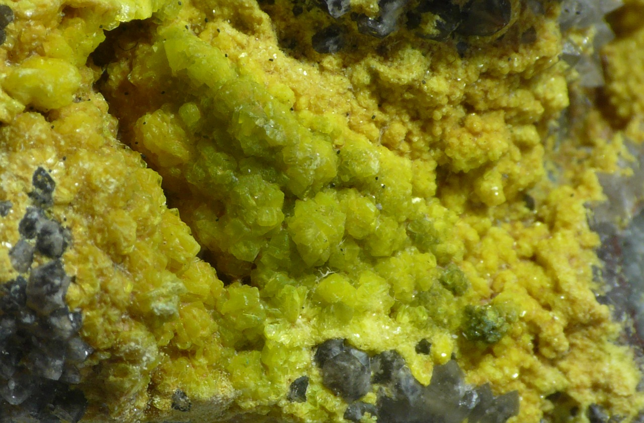 Chernikovite with greenish Meta-Autunite, Rockelmann Quarry, Schwarzenberg, Schwarzenberg District, Erzgebirge, Germany